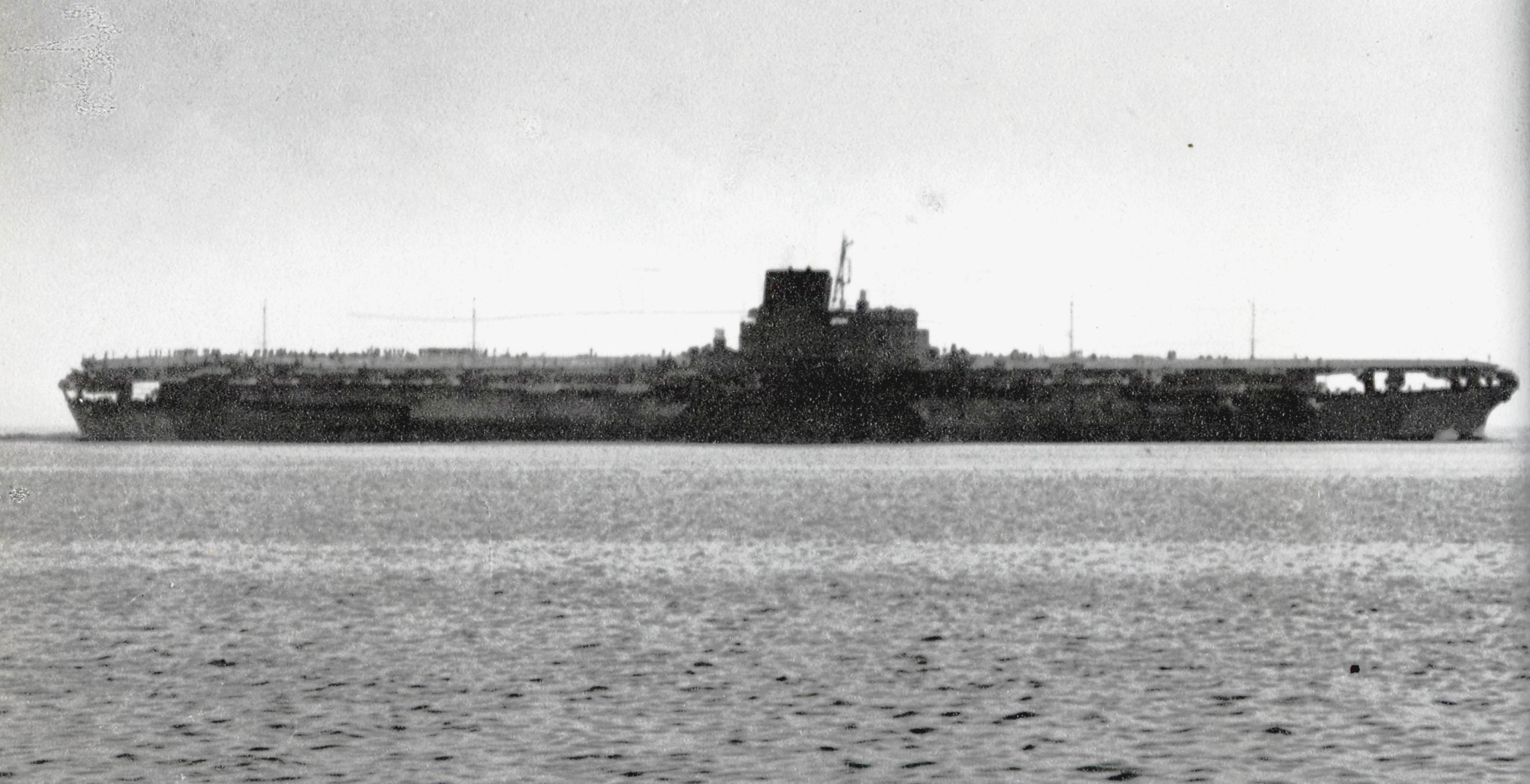 Japanese aircraft carrier Shinano underway during her sea trials.